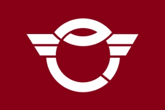 Flag of Fujimi Nagano